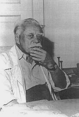 Zygmunt Klukowski (23 January 1885 - 1959), Polish physician, historian and bibliophile; author of the Diary from the Years of Occupation, 1939-44.